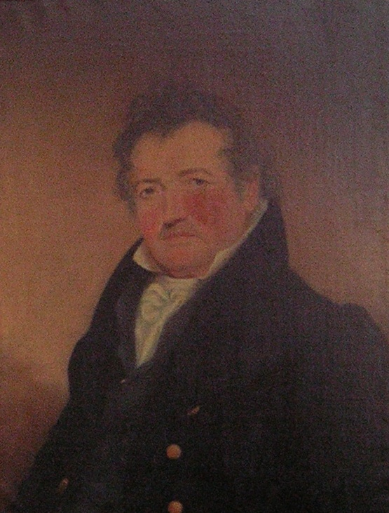 Mid 19th Century Conrad Shindler portrait - Unknown Artist (ca. 1840)